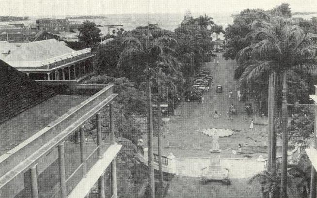 View of Place d'Armes from Government House, Mauritius